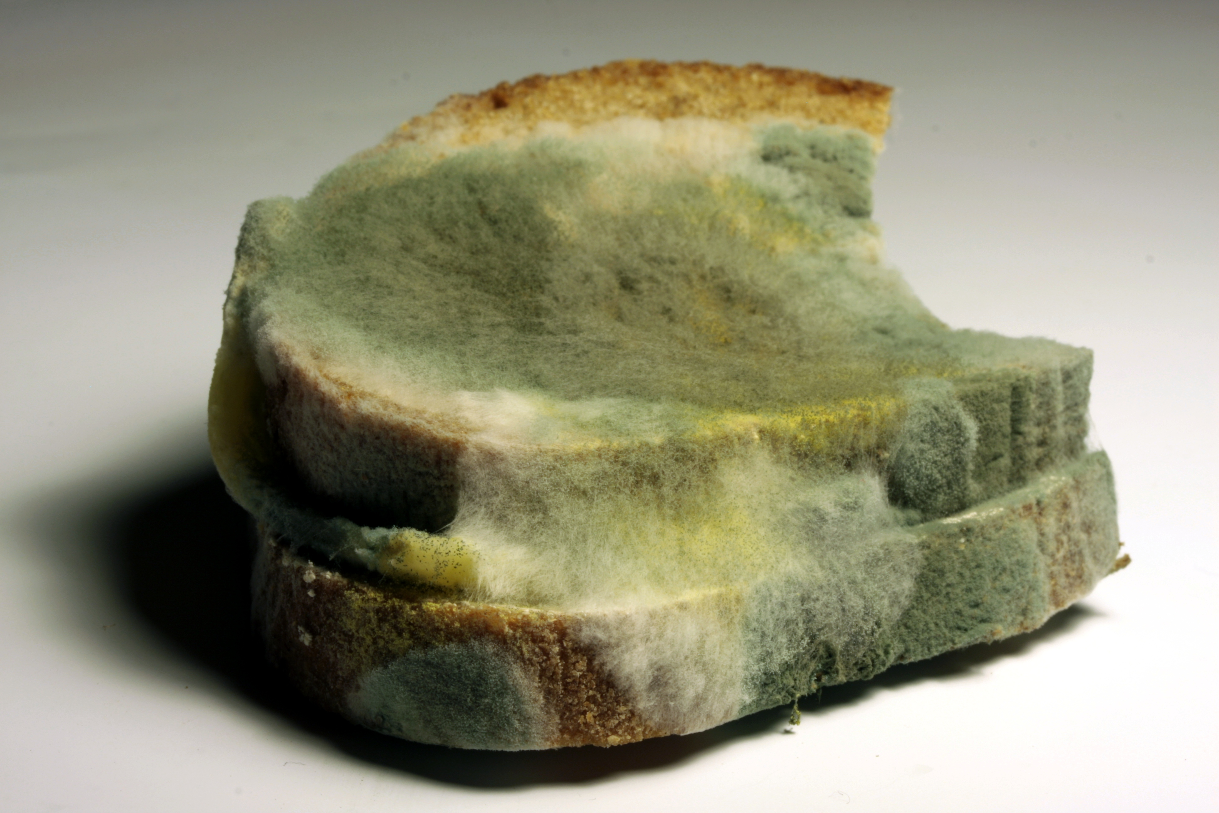 mold on bread